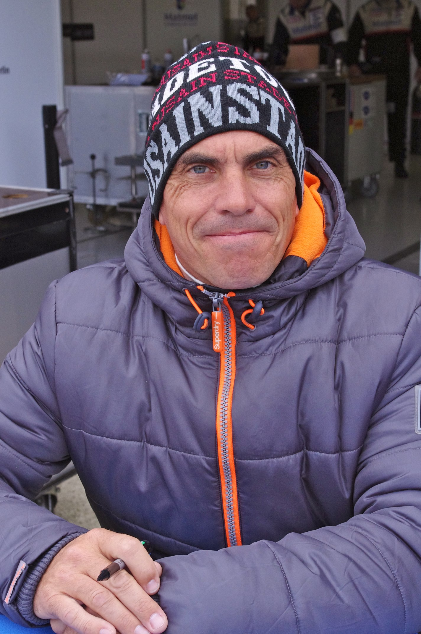 Éric Hélary at 2014 Silverstone 6 Hours.